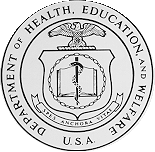 Seal of the United States Department of Health, Education and Welfare.